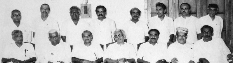 Kerala Ministers from 1977 Karunakaran Ministry